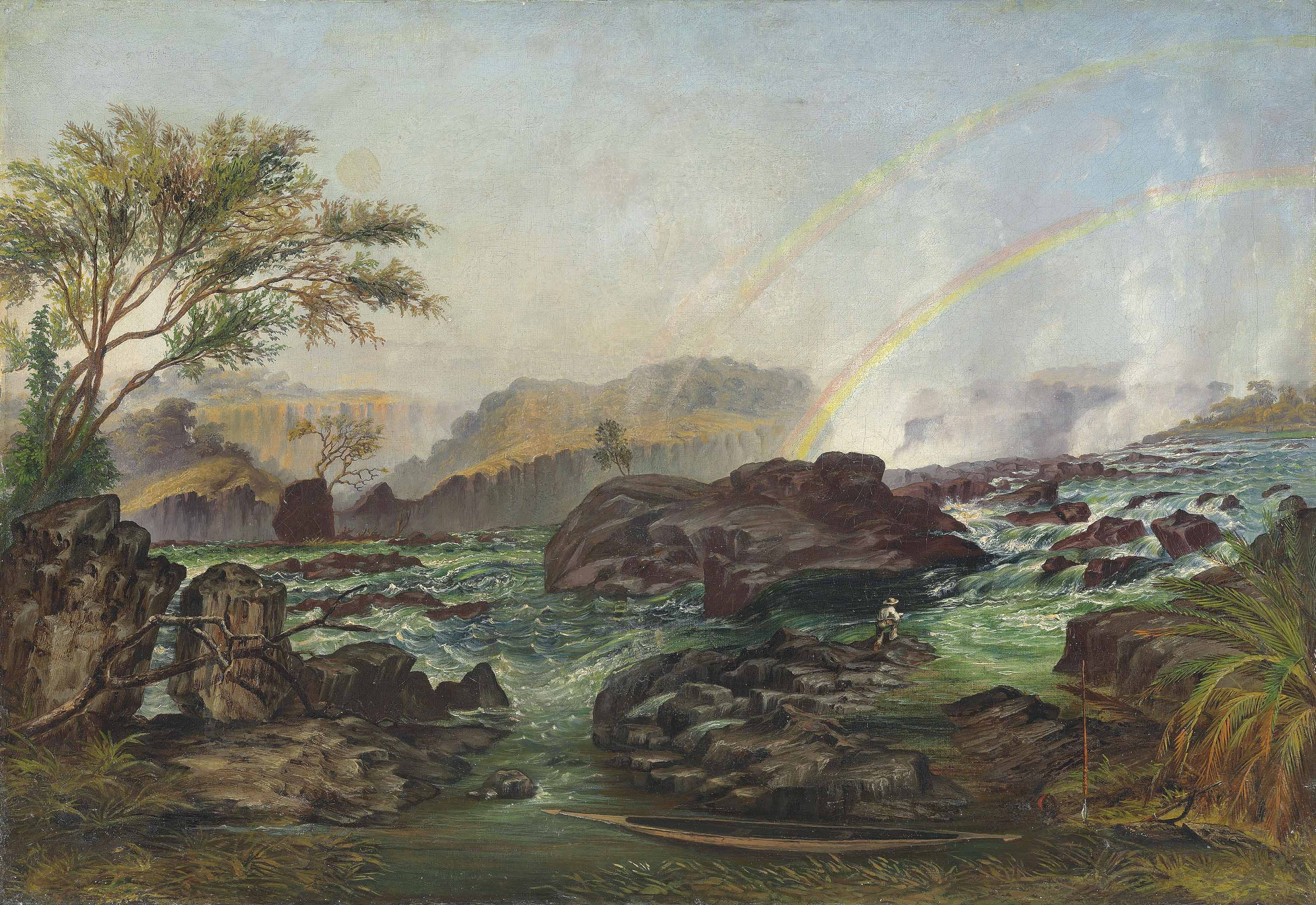 The rapids of the Victoria Falls, Zambezi River. The rapids of the Victoria Falls, Zambezi River signed and dated 'T. BAINES / APRIL / 1864' (lower right), signed, inscribed and dated 'THE RAPIDS OF THE VICTORIA FALLS ZAMBEZI RIVER. SKETCHED FROM THE EASTERN SHORE 200 OR 300 YARDS ABOVE THE CHASM BETWEEN AUGUST 3rd AND 5th 1862. SHOWING THE BALANCED ROAD, THE OUTLET AND PART OF GARDEN ISLAND WITH ZANGUELLAH'S CANOE AT HIS USUAL LANDING PLACE. / PAINTED AT WALVISCH BAY - APRIL 8th 1864. / T. BAINES' on the reverse under the reline (according to a typed label attached to the stretcher). oil on canvas 18 x 26in. (45.7 x 66cm.)